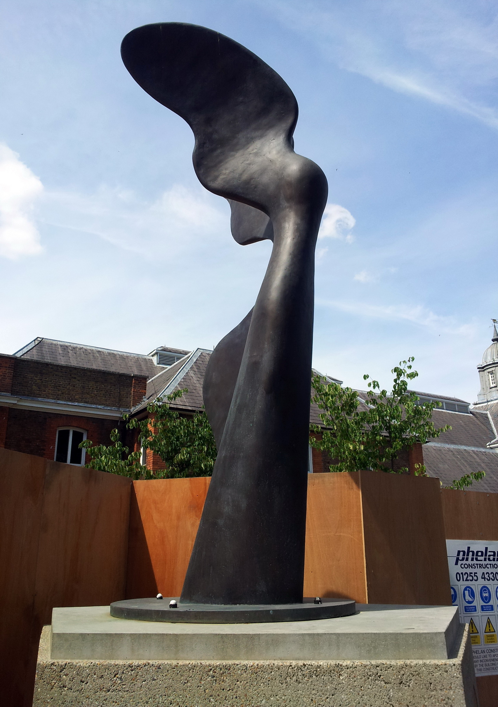 View of the statue of Nike by Greek sculptor Pavlos Angelos Kougioumtzis (a gift of the people of Olympia to commemorate the 30th Olympiad in London in 2012) in front of the Royal Arsenal Main Guardhouse, built in 1788 and converted into a pub in 2015, Woolwich, South East London.